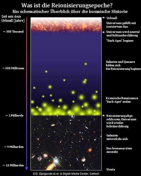 This is a timeline of the universe, created at Caltech, but linked on NASA's website ( as part of the James Webb Space Telescope exhibit. I intend to include it in the article on